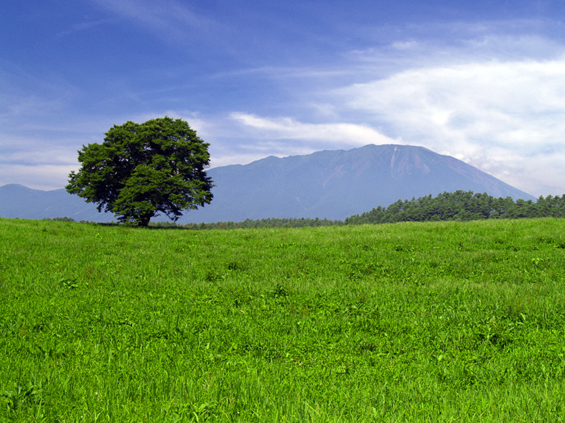 Cherry Tree